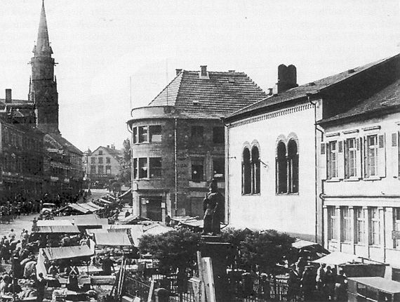 Oberer Markt in Neunkirchen (Saar). To the left the Protestant Friedenskirche, to the right the Israelitic synagogue.